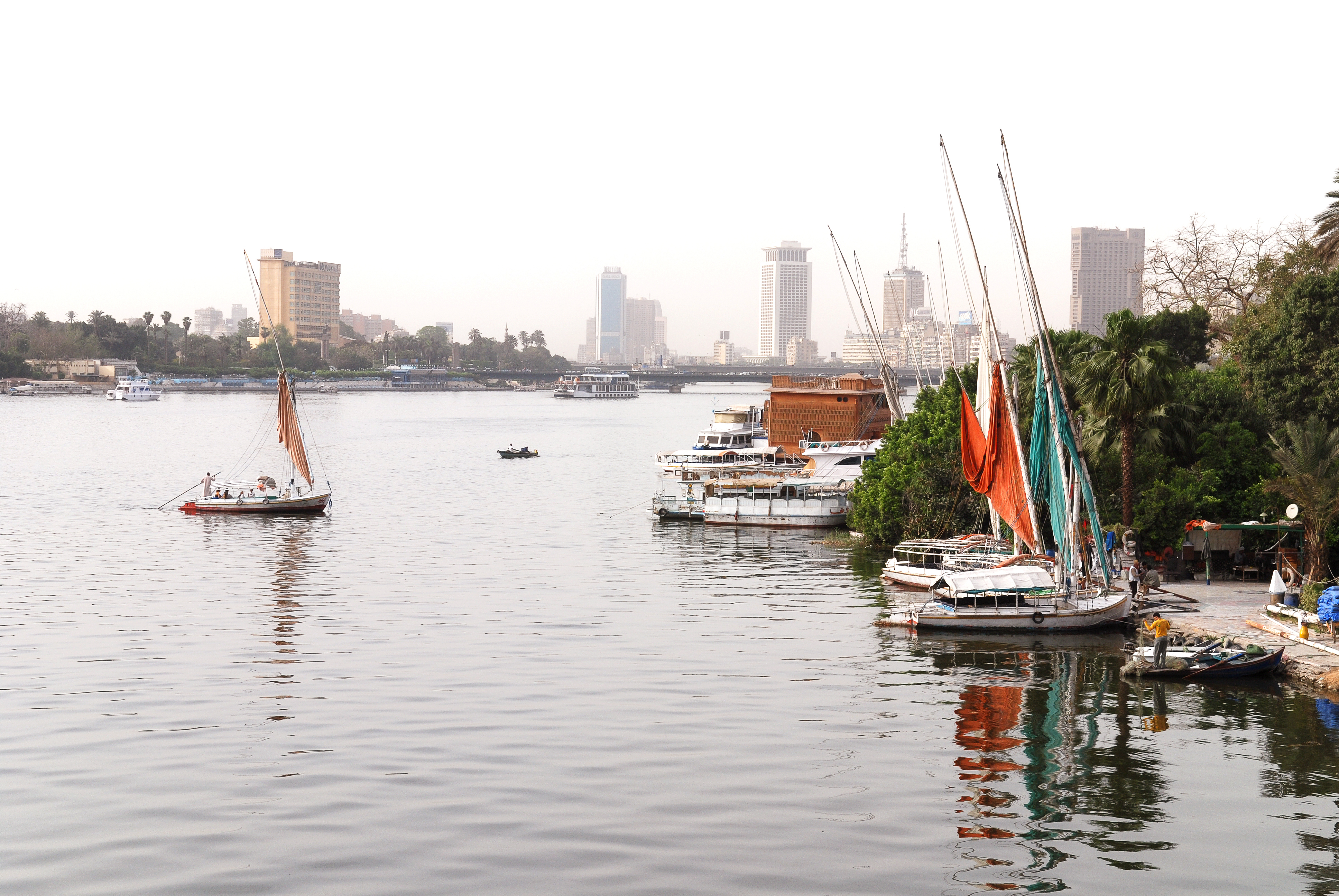 The Nile River as it flows through the city of Cairo, Egypt.